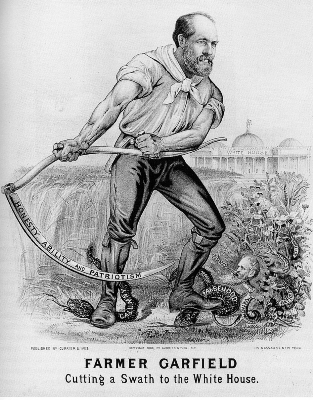 Cartoon U.S. President James Garfield, portrayed as a farmer cutting down corruption with a scythe.